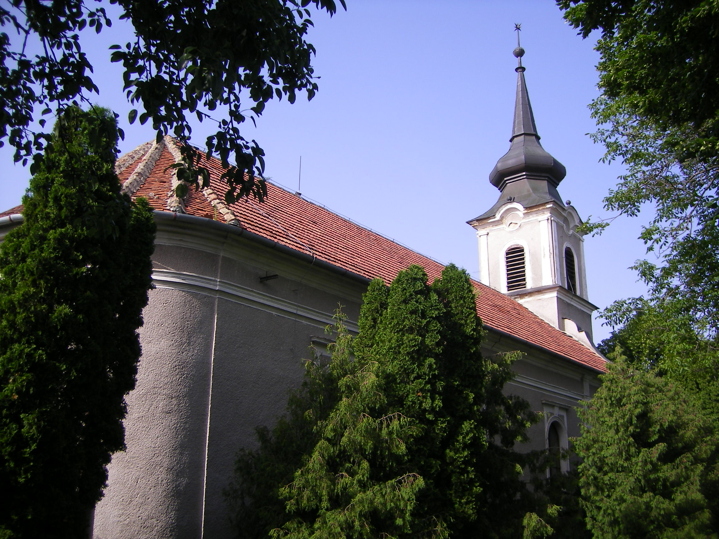 Martos (Martovce) - reformated church